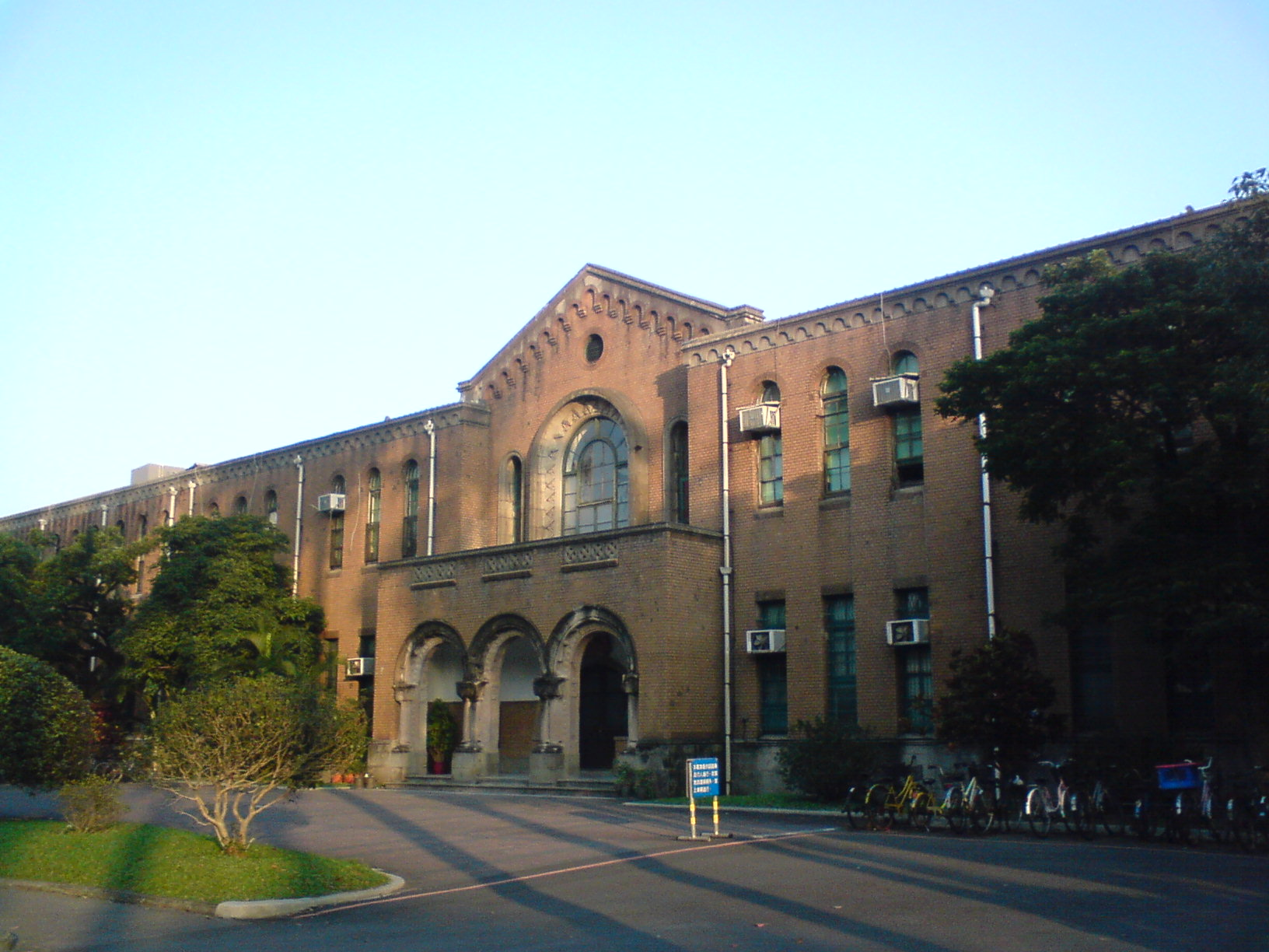 Gallery of National Taiwan University History.